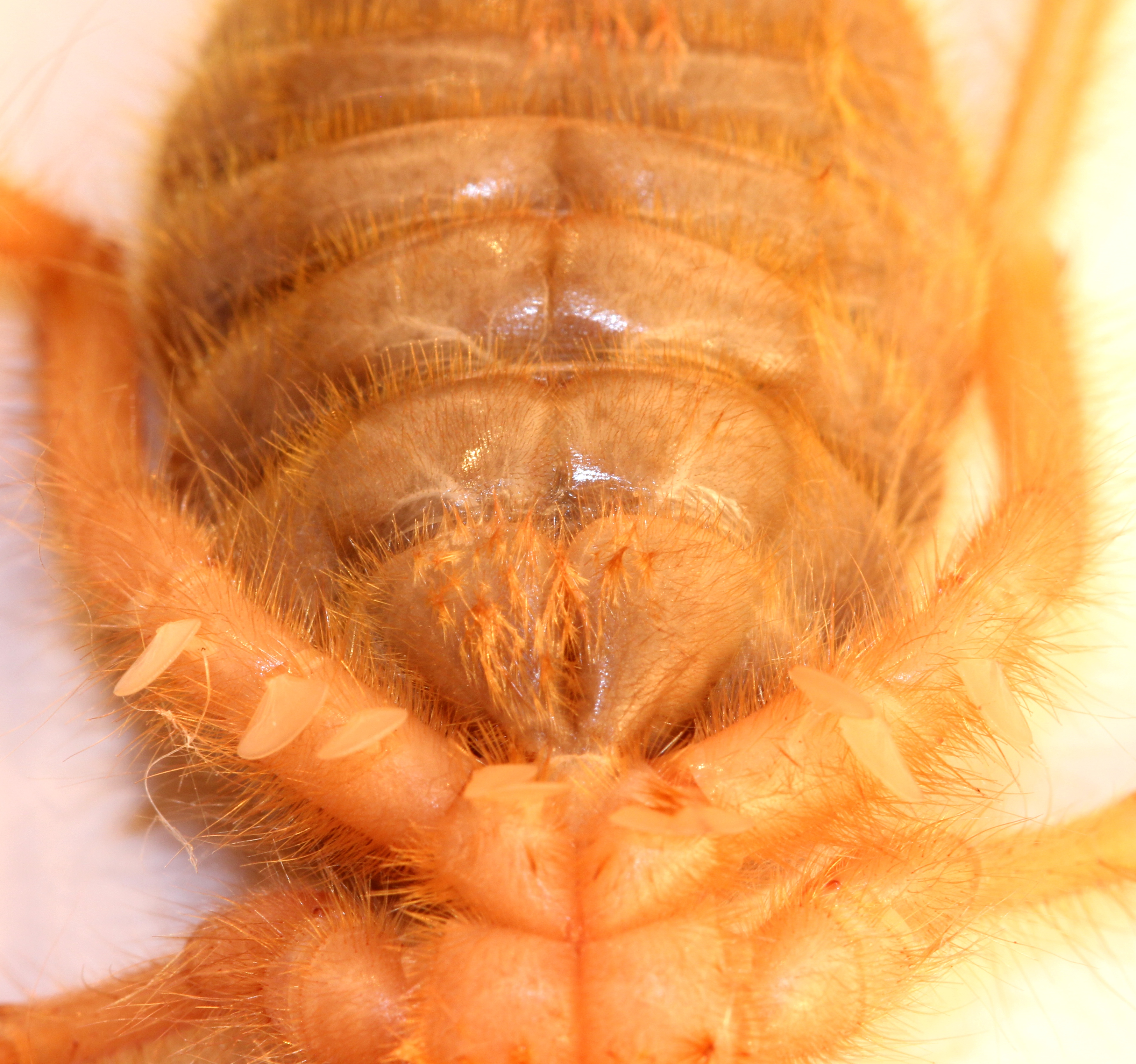 Solifugae Ventral aspect of region that includes the respiratory slots and malleoli